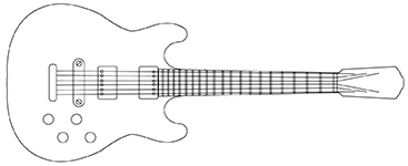 Outline of symmetrically cut guitar body